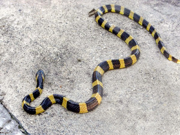 Banded Krait Bungarus fasciatus Daudin 1803 Photo of Banded Krait captured in Binnaguri, North Bengal, India on 19 Sep 2006. Self-work. AshLin 20:30, 19 September 2006 (UTC)